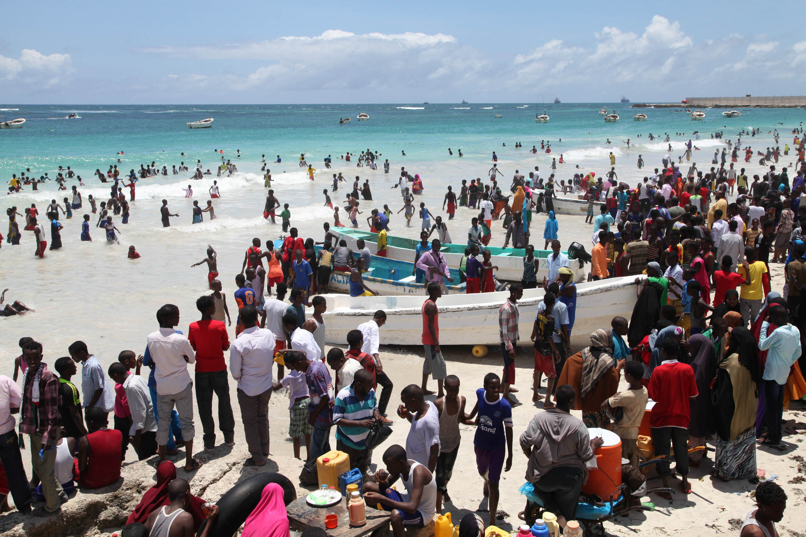 2014_10_03_Eid_Preparations-1-7.jpg